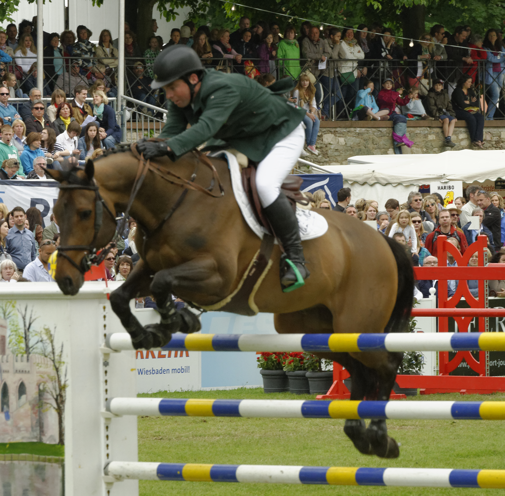 Internationales Pfingstturnier Wiesbaden 2013 The making of this document was supported by the Community-Budget of Wikimedia Germany.